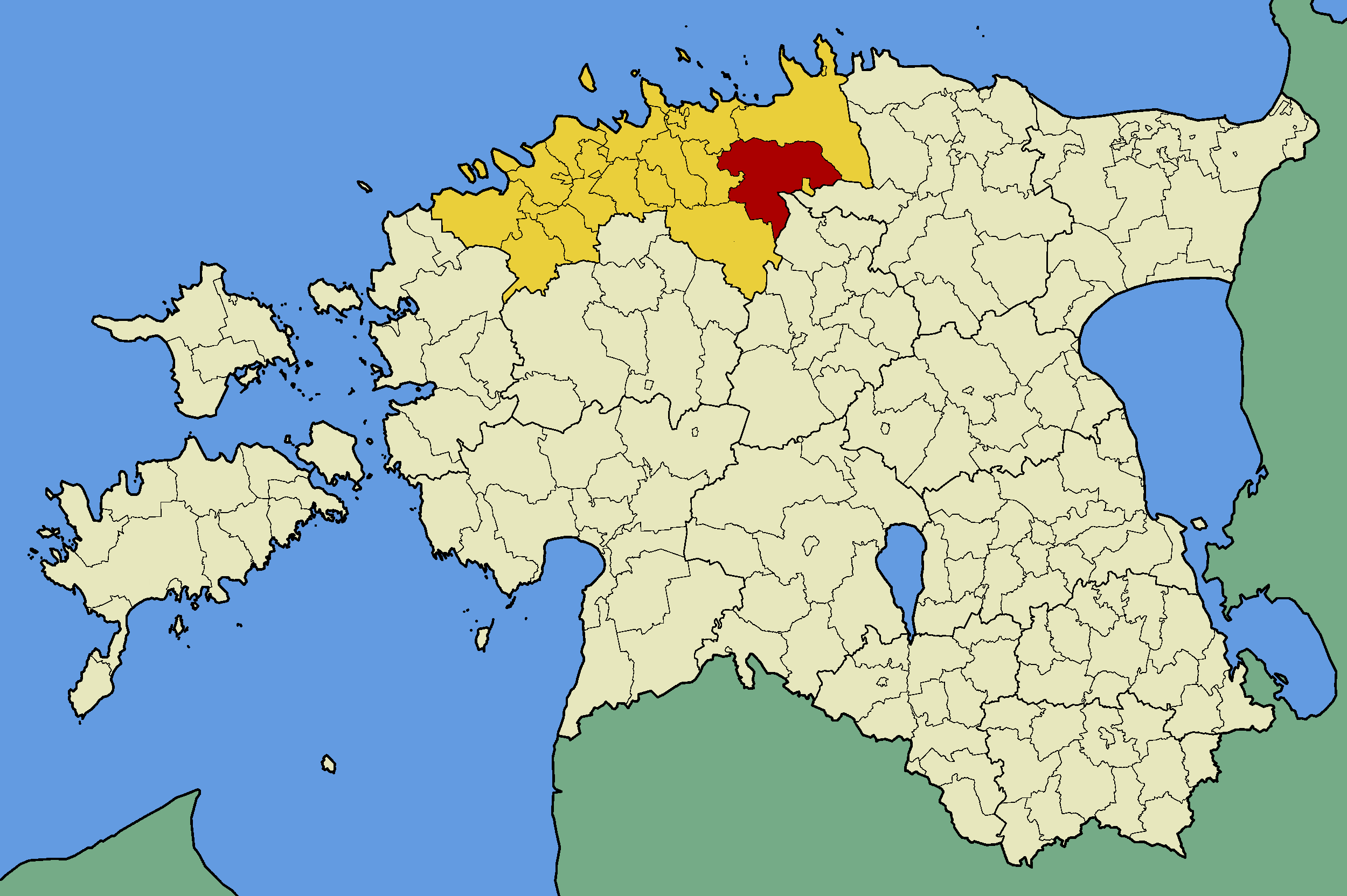 Map of Estonia with borders of municipalities (parishes). Harju county and Anija municipality (parish) emphasized.